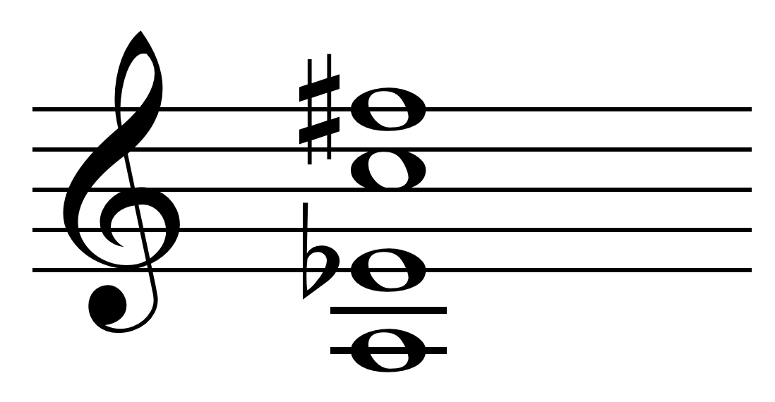 Supertonic diminished seventh chord in C (D♯=E♭).